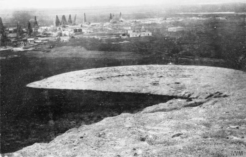 Mud volcano, Baku, where many British troops lost their lives with the Dunster Force, 1918